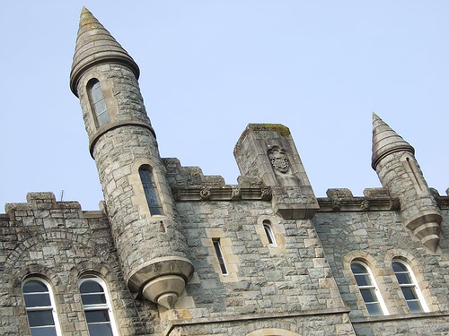 my own photo